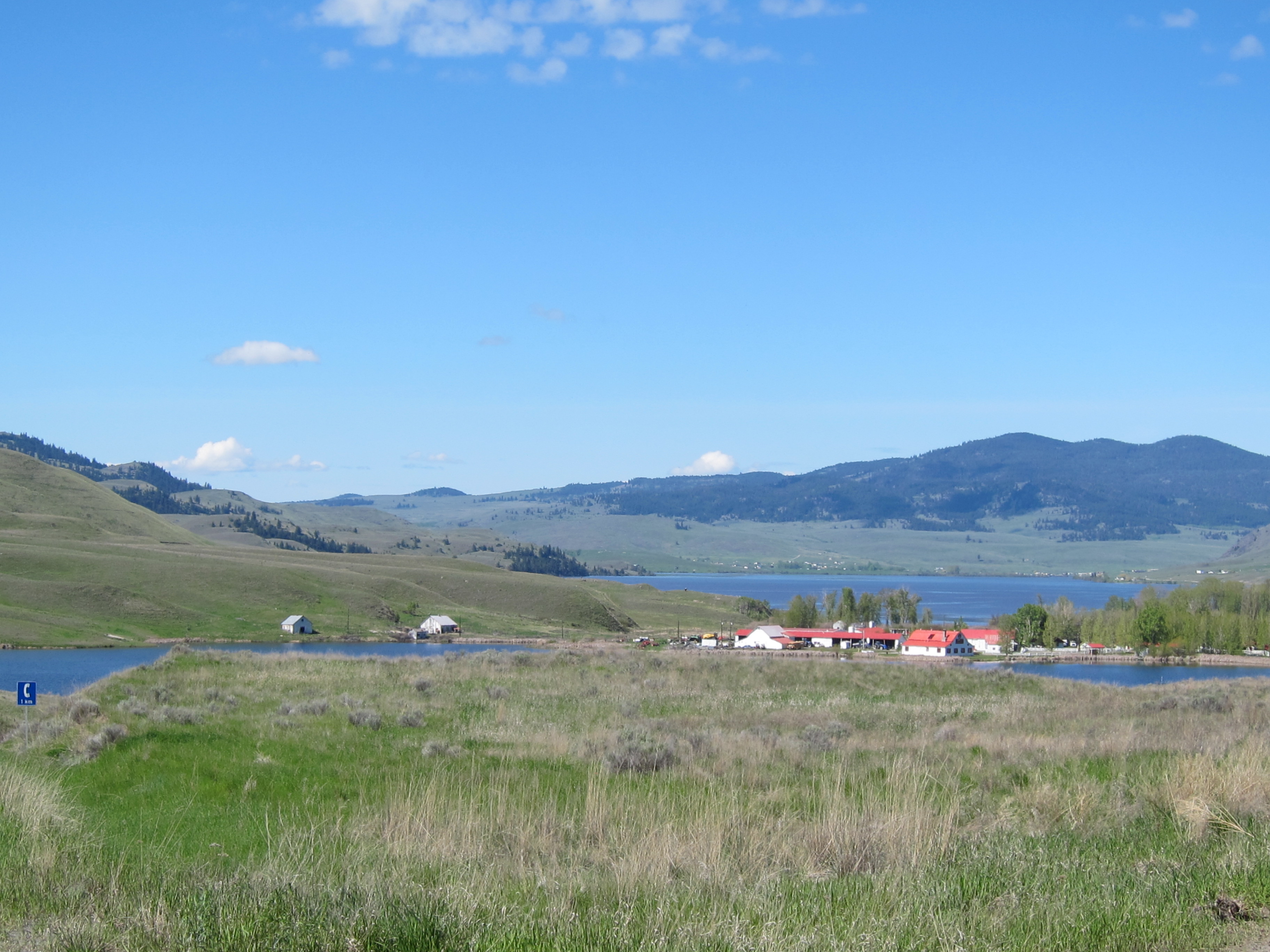 The headquarters of the Douglas Lake Ranch, in the south Interior of British Columbia, Canada